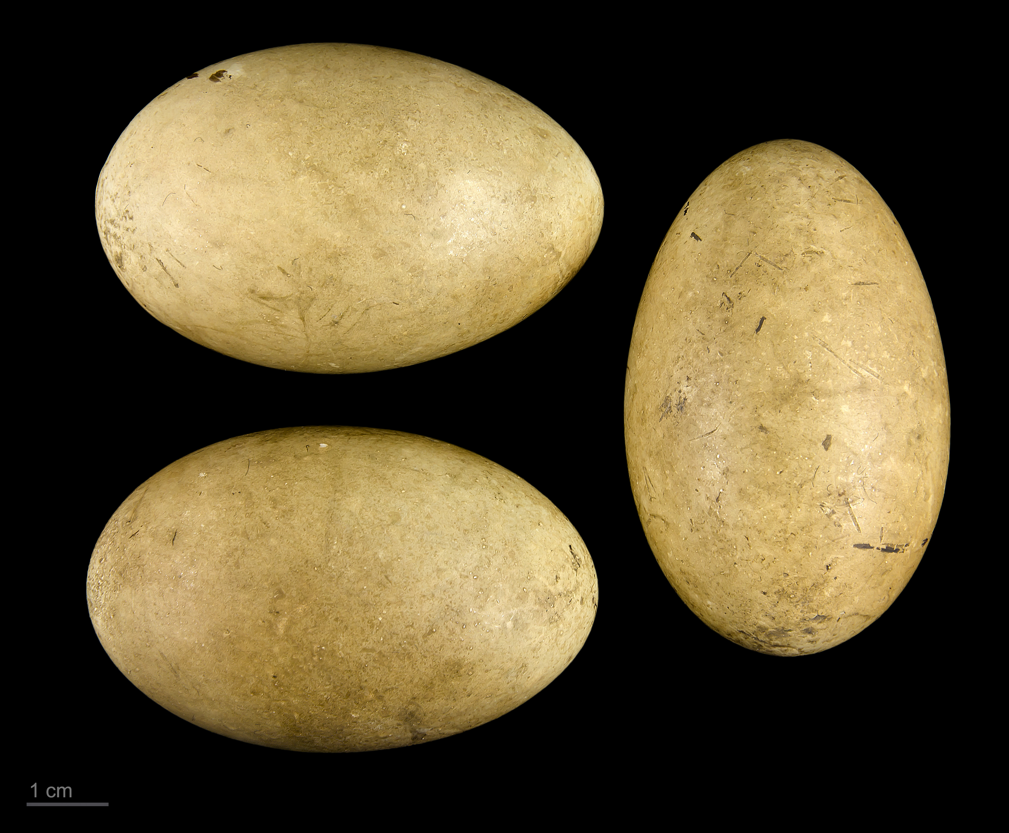 Eggs of red-necked grebe Three specimens of the same spawn ; collection of Jacques Perrin de Brichambaut.